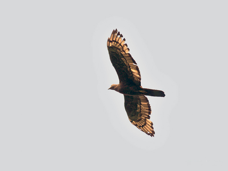 Oriental Honey Buzzard Pernis ptilorhyncus in Kolkata, West Bengal, India.